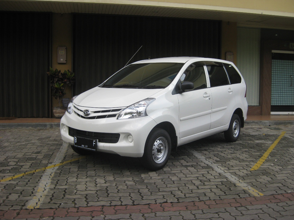 2012 Daihatsu Xenia 1.0 (F650), photographed in Jakarta, Indonesia.